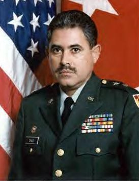 MG Emilio Díaz-Colón - Puerto Rico National Guard, The PR National Guard is part of the US Army